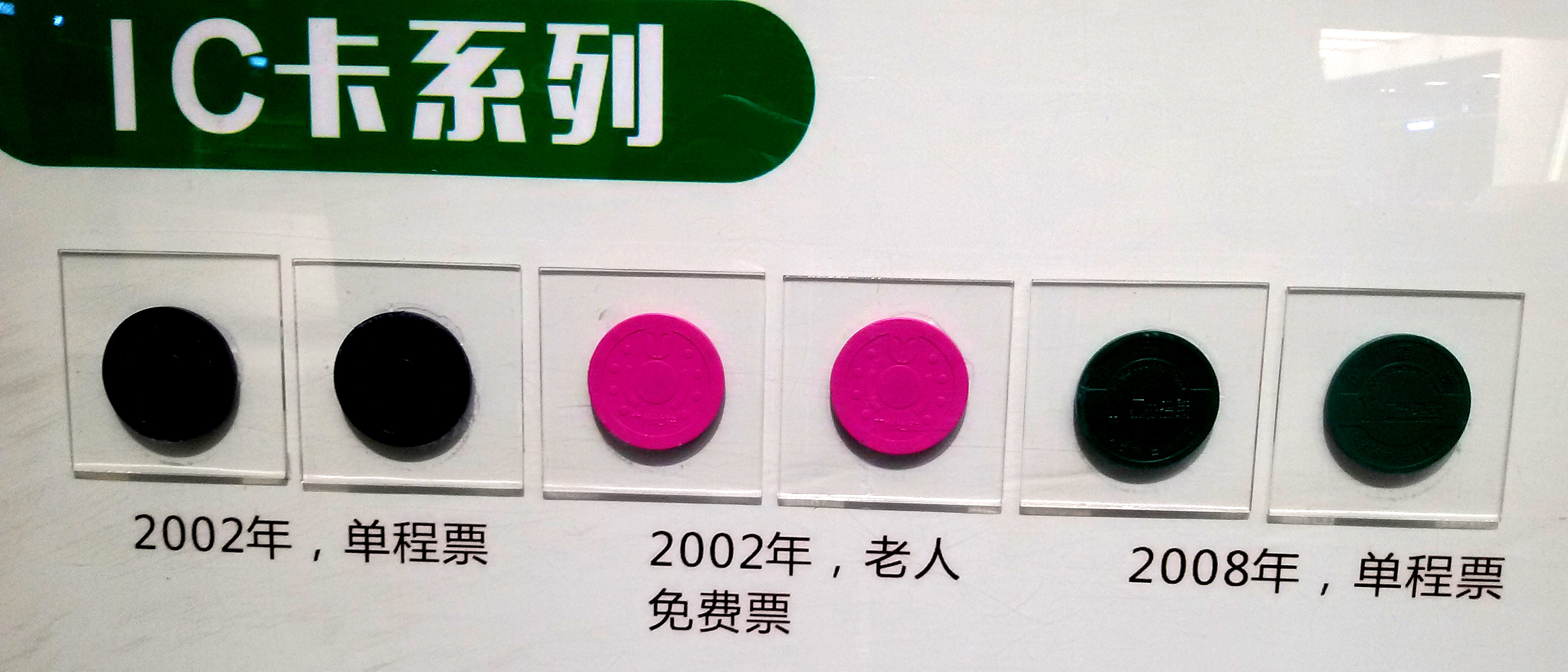 Former plastic coin tickets for Guangzhou Metro since 2002 & 2008 粵語: 廣州地鐵喺2002同2008年用過啲塑膠幣飛。